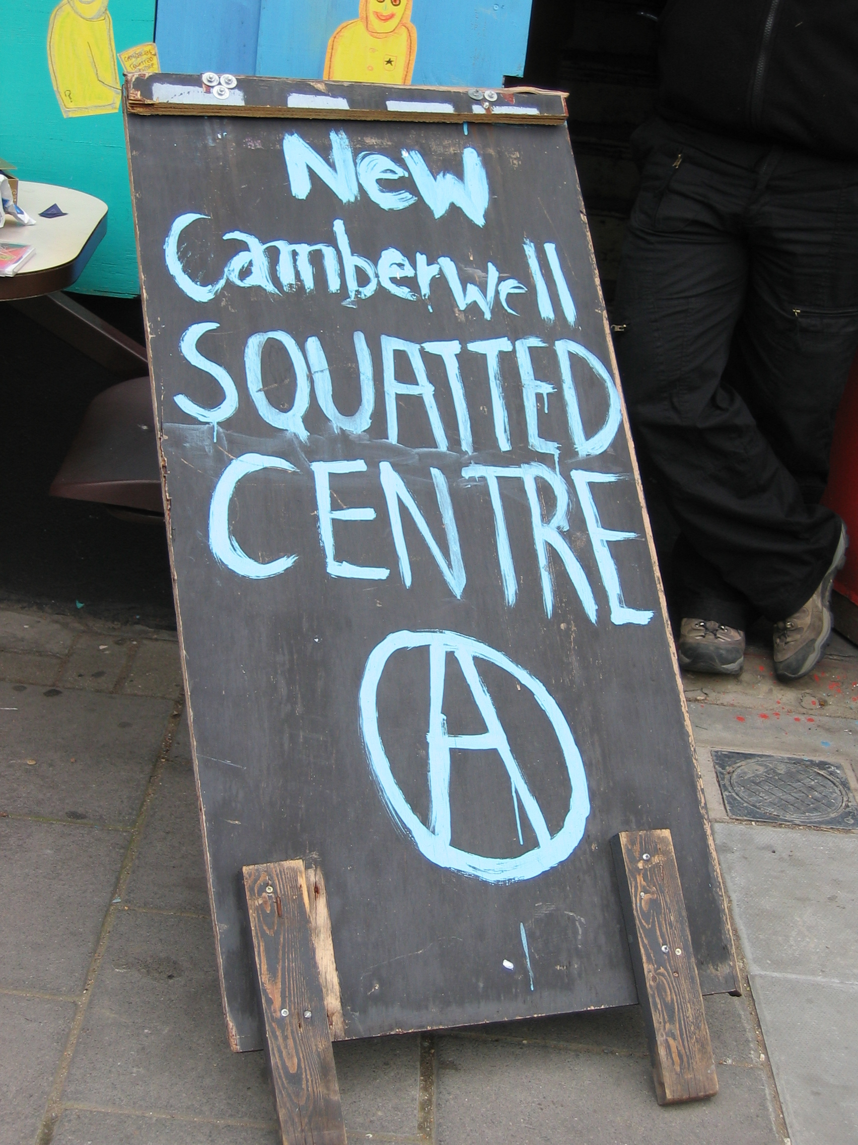 Board outside Camberwell Squatted Centre during its eviction on 30 August 2007